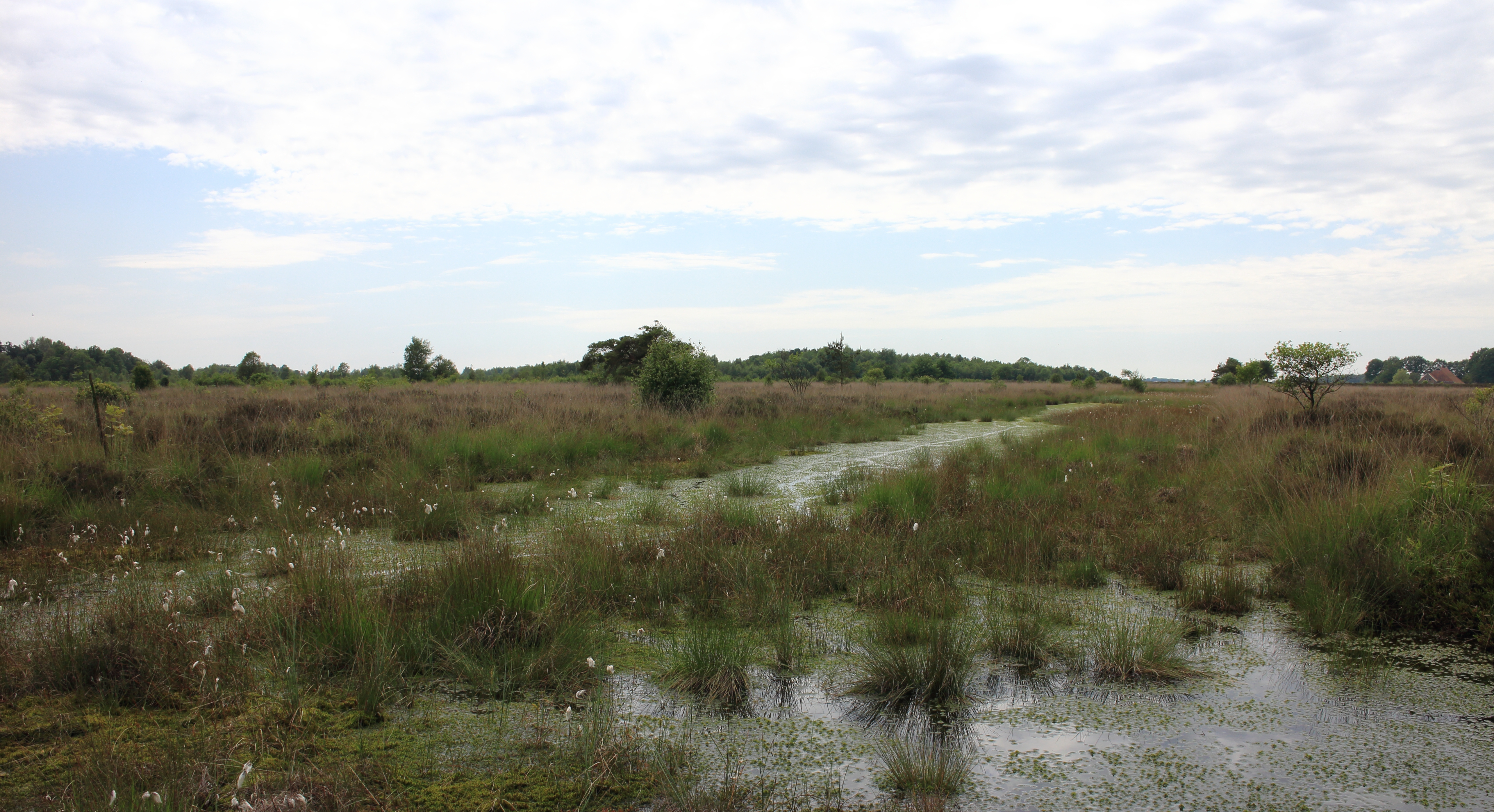 National Park Drents-Friese Wold. Location Fochteloërveen in the Netherlands. This is a photo or sound file made in Drents-Friese Wold National Park in the Netherlands, with the main subject of the file in the category: landscapes